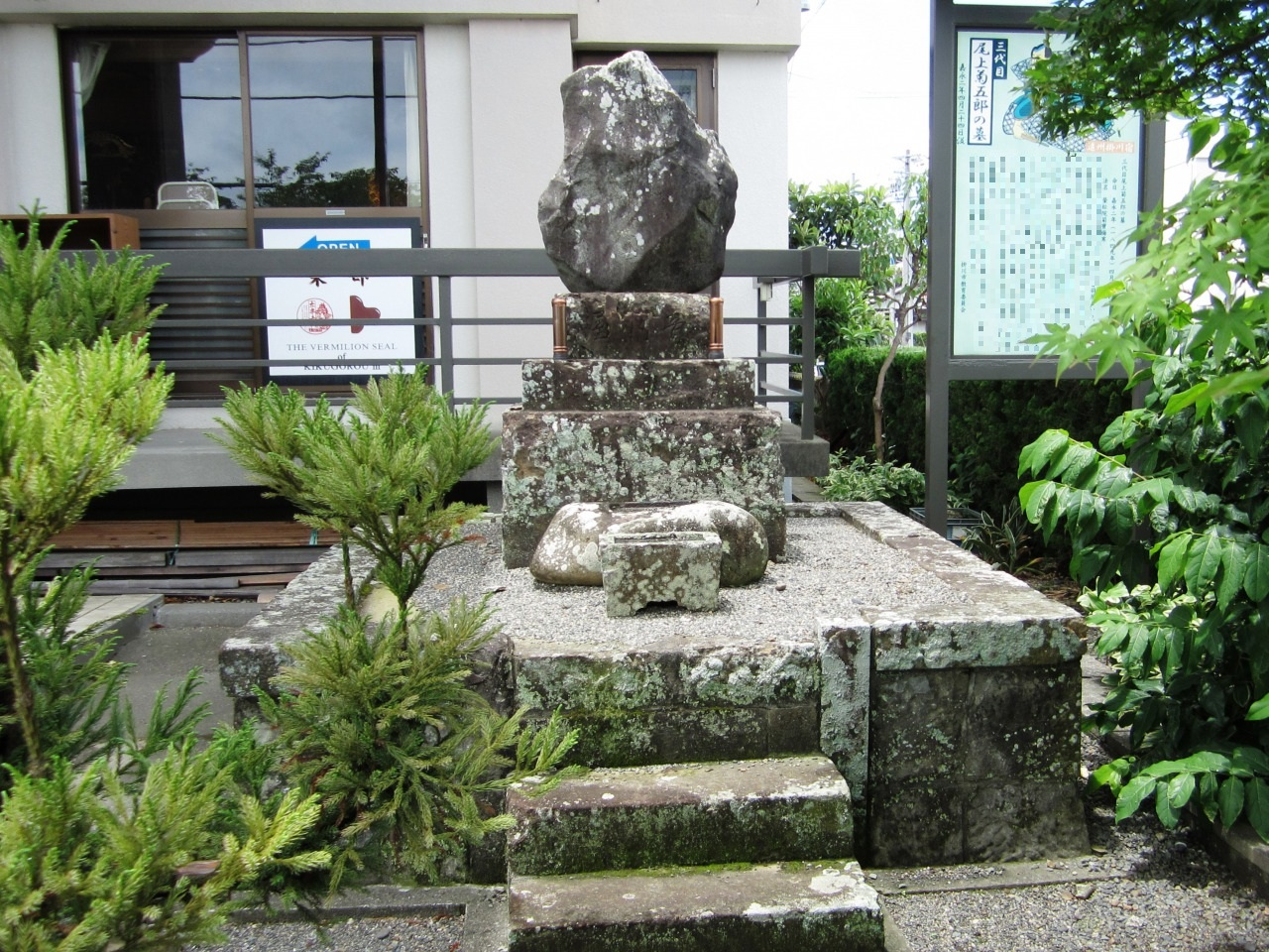 The grave of Onoe Kikugorō III at Kōraku-ji in Kakegawa, Shizuoka.